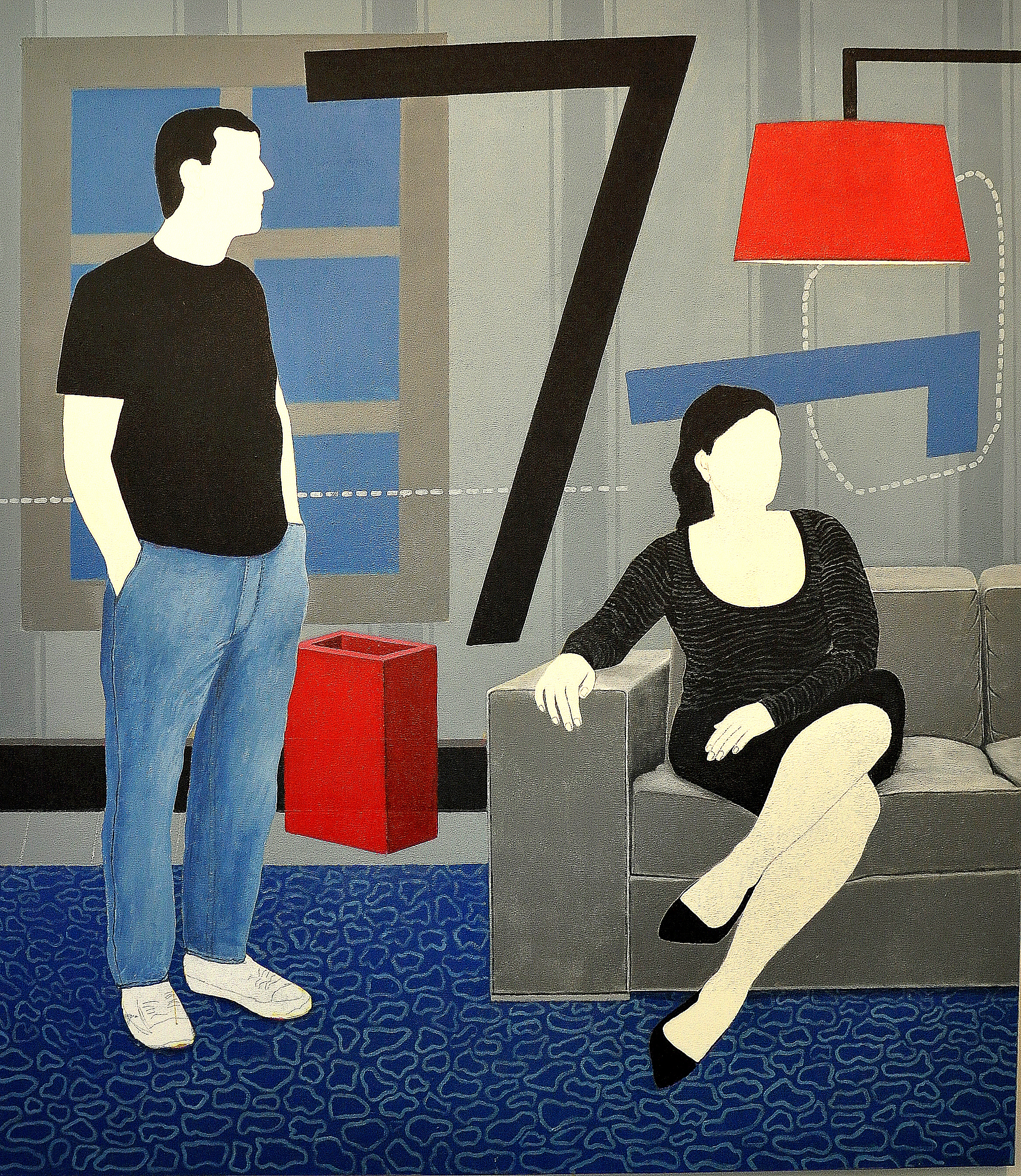 Interiors pop art